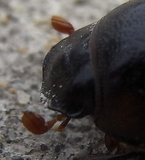 Clypeus of Coprimorphus scrutator